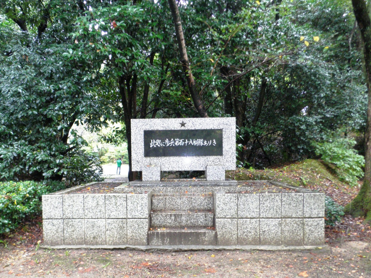 The monument of the Imperial Japanese Army 118th Infantry Regiment located in Toyohashi Park.